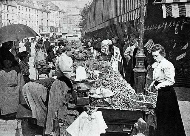 Paris street market located at the bottom of Rue Mouffetard in 1896.